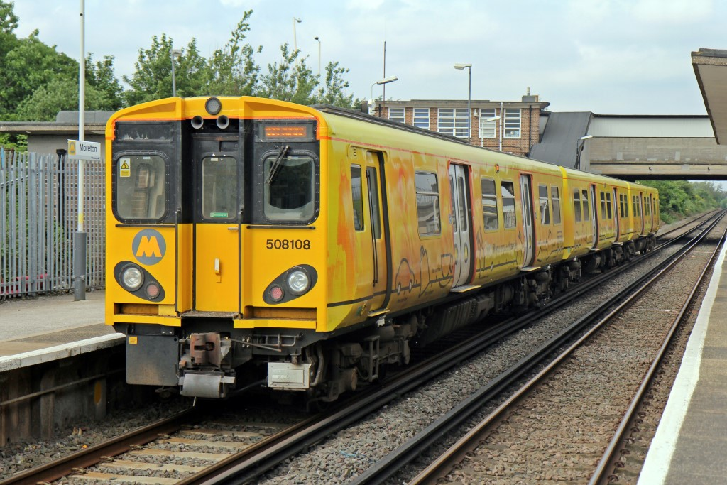 New Livery Class 508, 508108, Moreton railway station